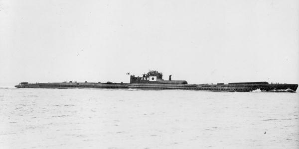 I-58(II), modified B type 2 of submarine of the Imperial Japanese Navy, on trial run inside the Tokyo Bay.